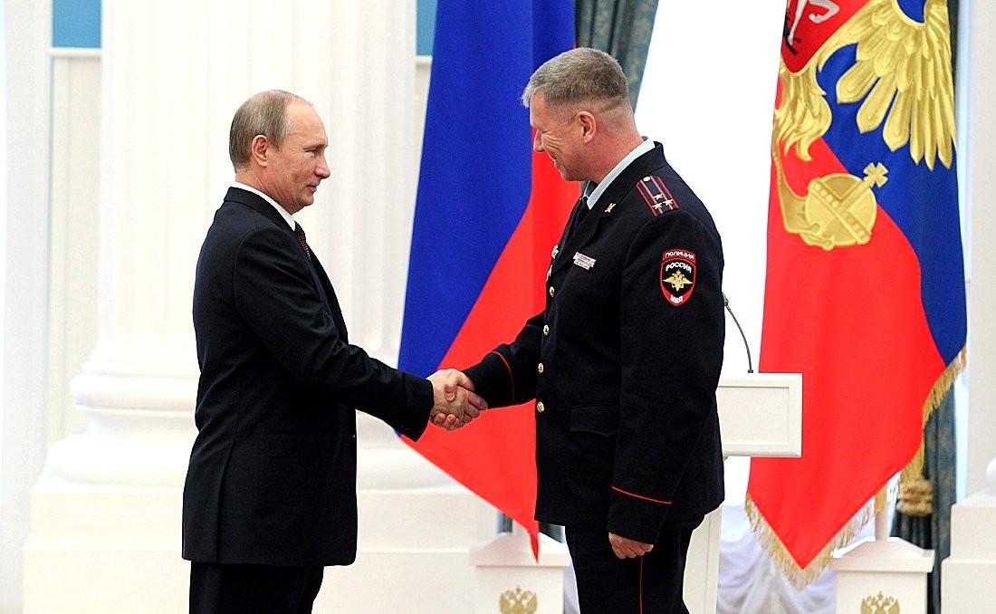 Sergey Yashkin was awarded the title of the Hero of the Russian Federation.